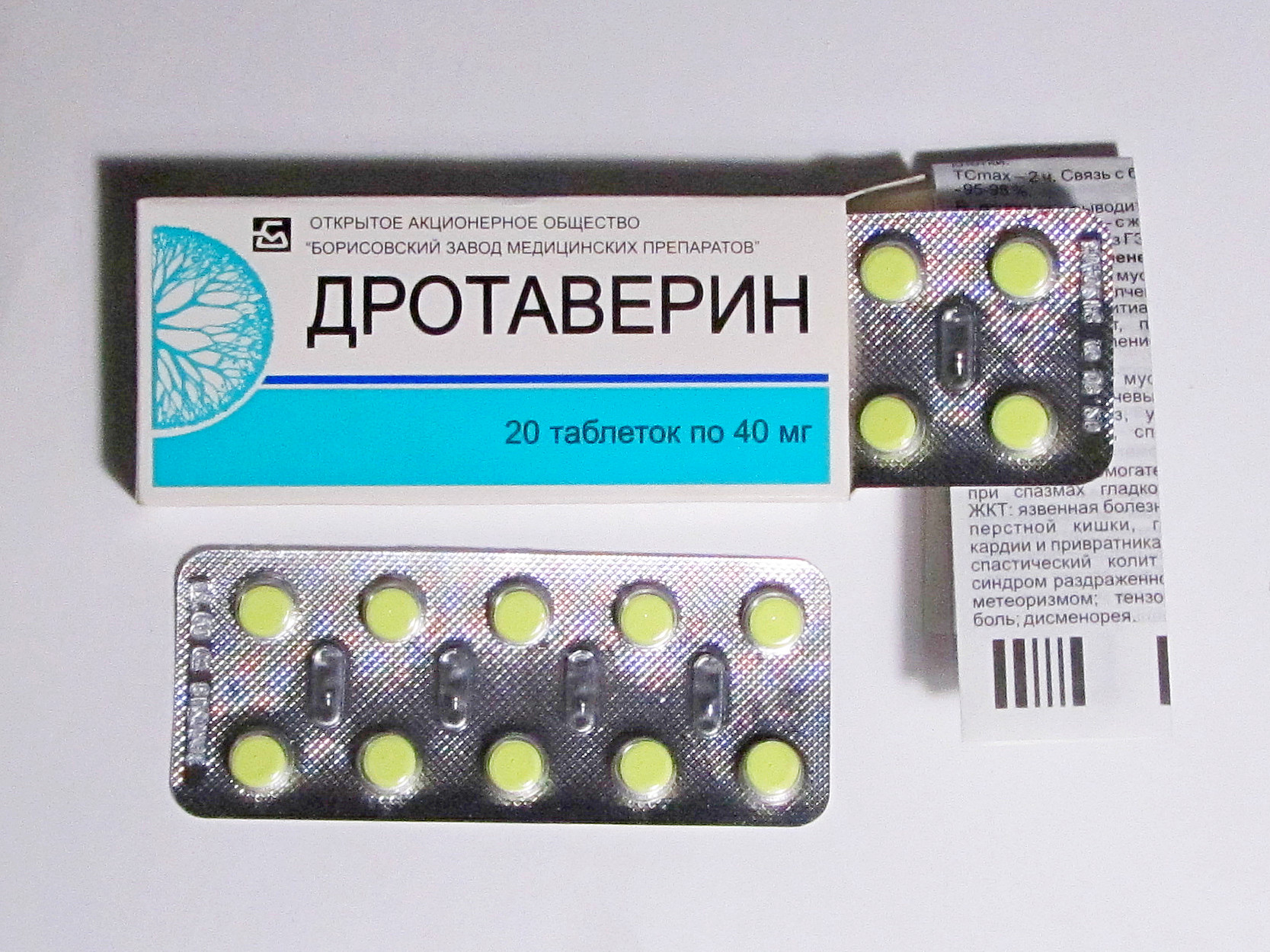 Drotaverine (INN, also known as drotaverin) is an antispasmodic drug, used to enhance cervical dilation during childbirth. Аҧсшәа: Дротаверин (англ. Drotaverine, лат. Drotaverinum) — лікарський препарат, який за своїм хімічним складом є похідним ізохіноліну[2] та, з іншого боку, також структурним аналогом і похідним папаверину